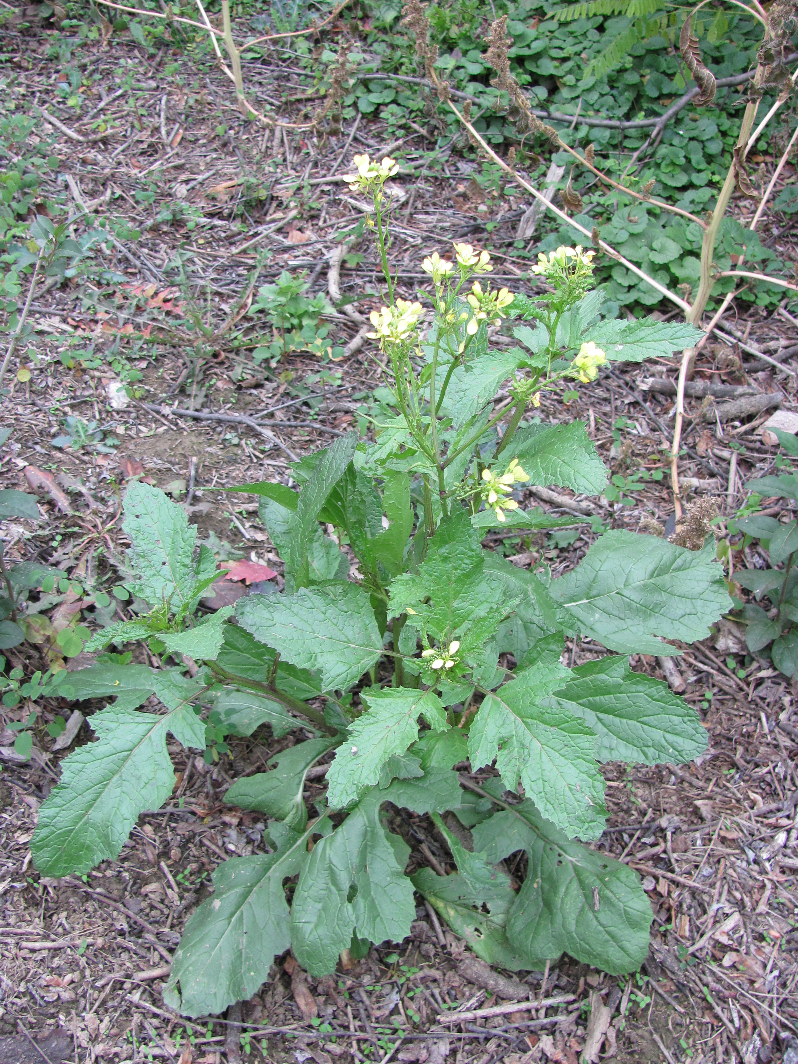 The original photographer categorized this Hirschfeldia incana, but based on the shiny leaves, it is more likely to be Brassica nigra